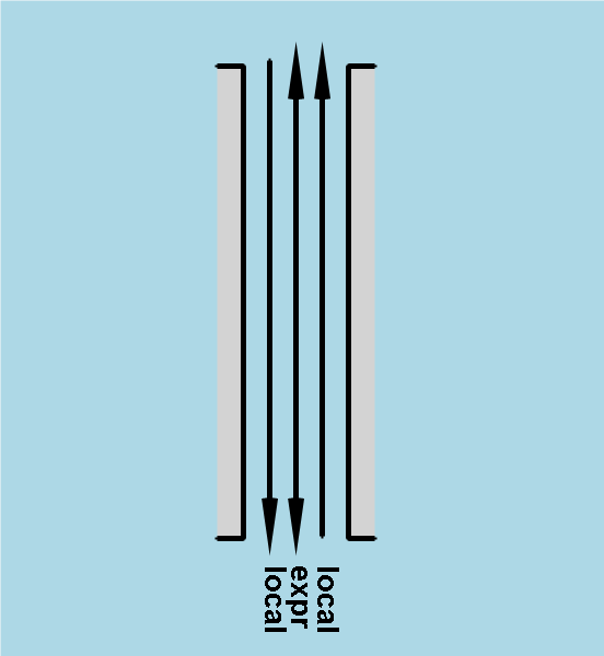 NYC Subway station layout vc typical side 3 tracks